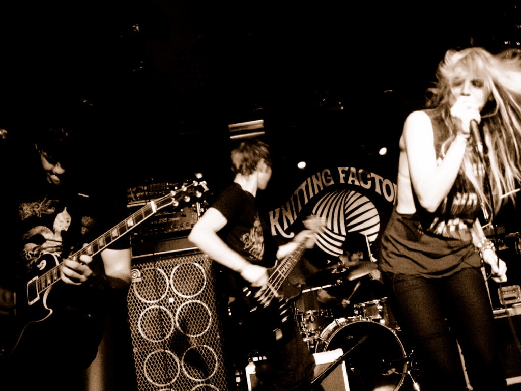 Automatic Loveletter live